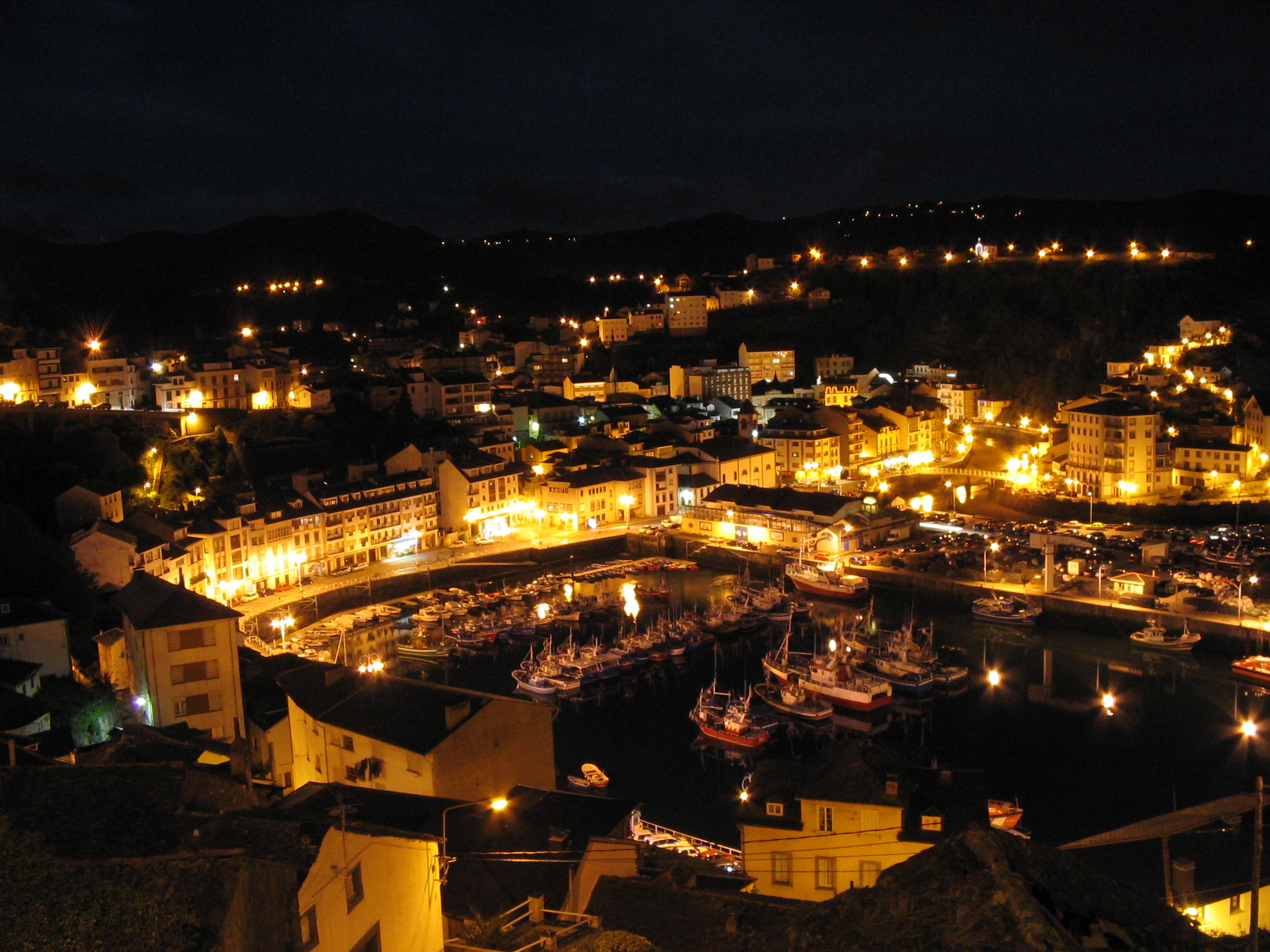 Night in Luarca, SpainIMG_4387